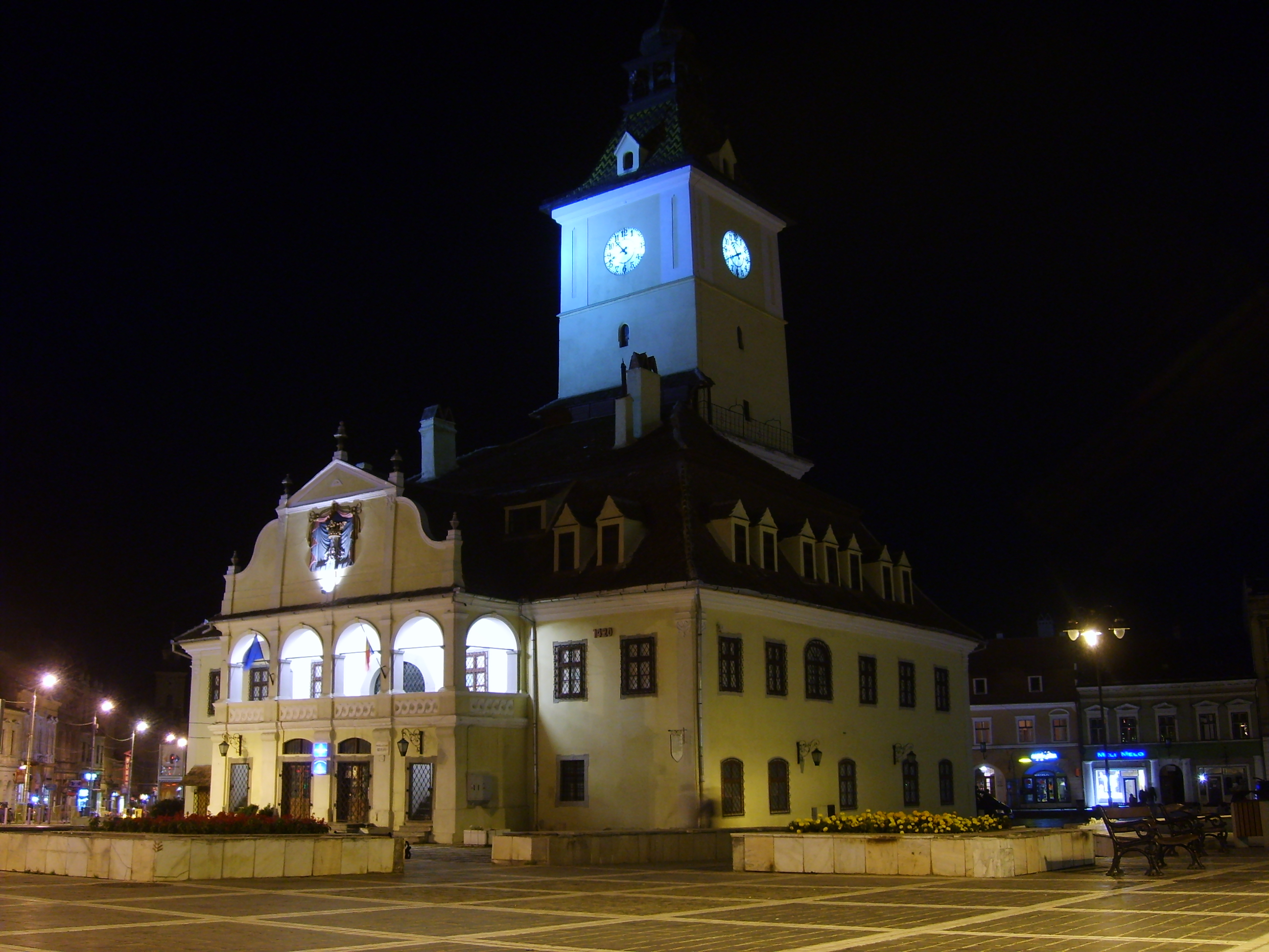 View of Casa Sfatului at night, in the main square of Brasov